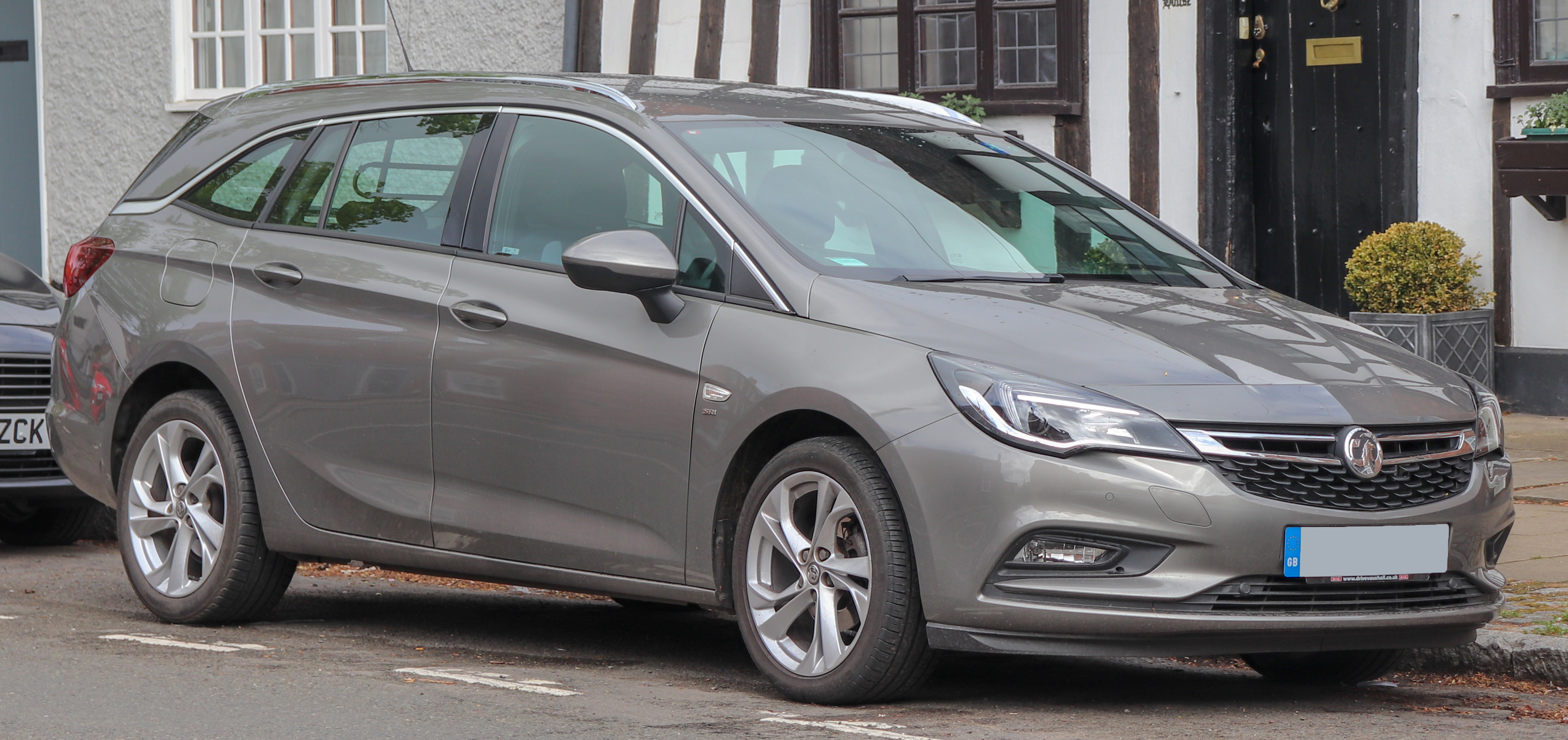 2017 Vauxhall Astra SRi Estate 1.4 Front Taken in Warwick